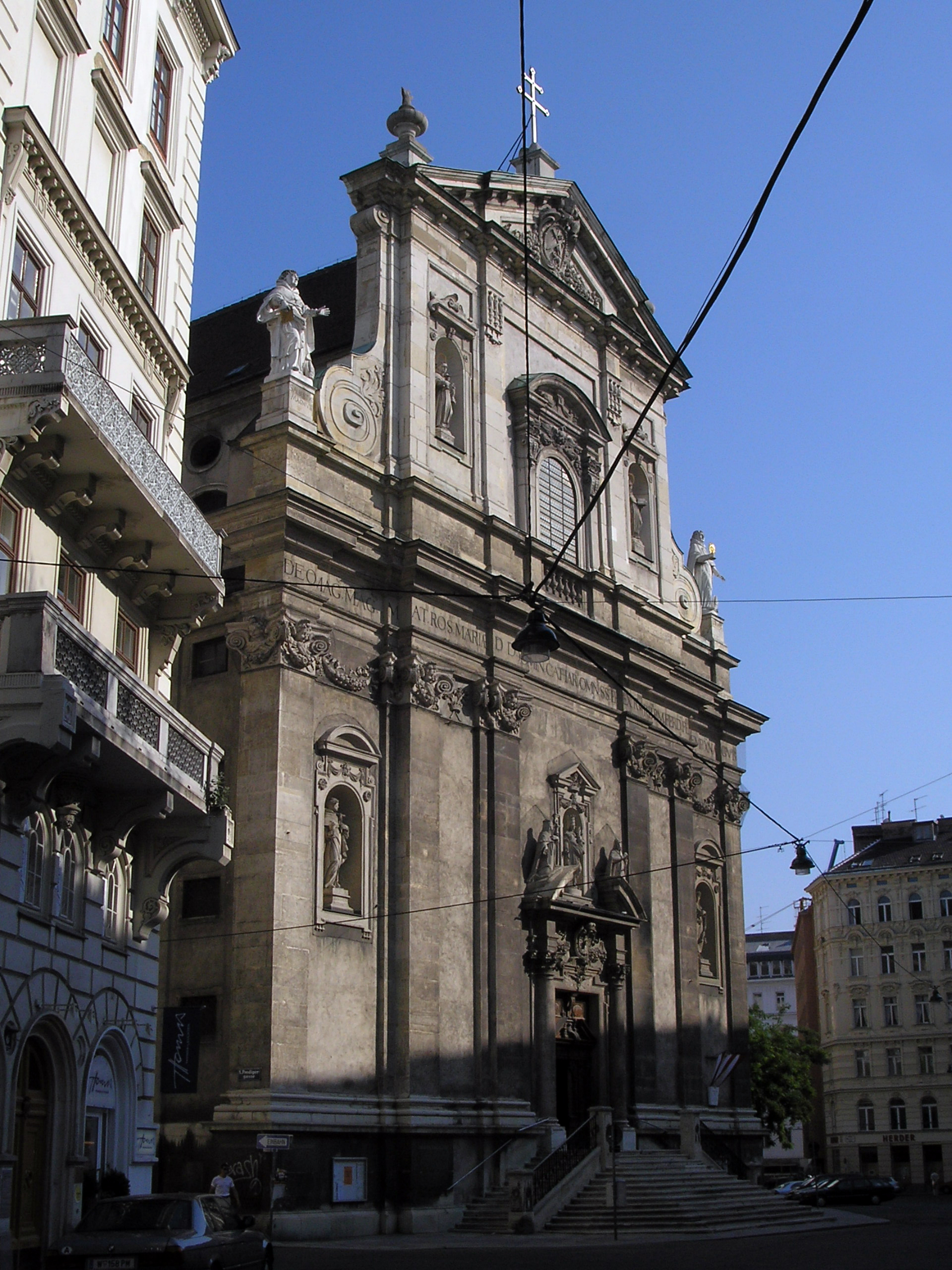 Dominikanerkirche in Vienna. In Latin Basilika minor ad Sankta Mariam Rotondam. Constructed 1631-34 by Jakob Spatz, Cipriano Biasino and Antonio Canevale.